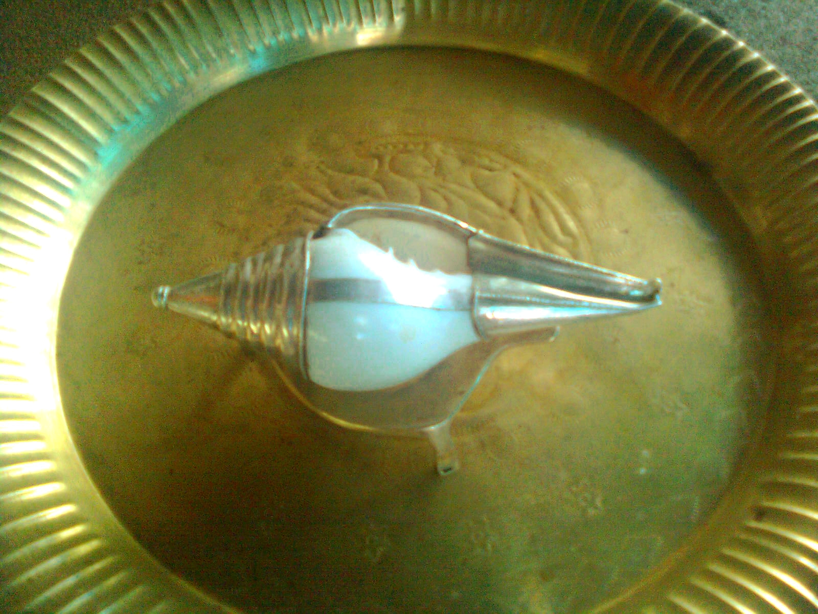 Samkh, special type of sea shell used to pour Punyaha(Divine Water) during the pooja